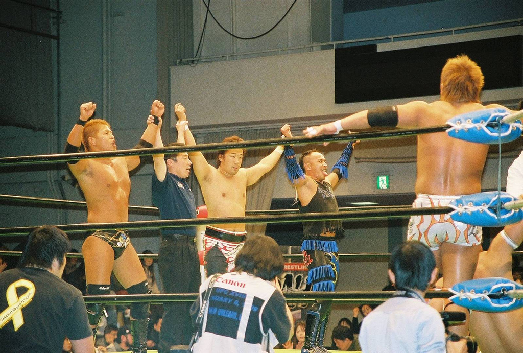 Naruki Doi, Yoshinobu Kanemaru, and Genki Horiguchi following their victory in a six-man tag team match on July 3, 2007.